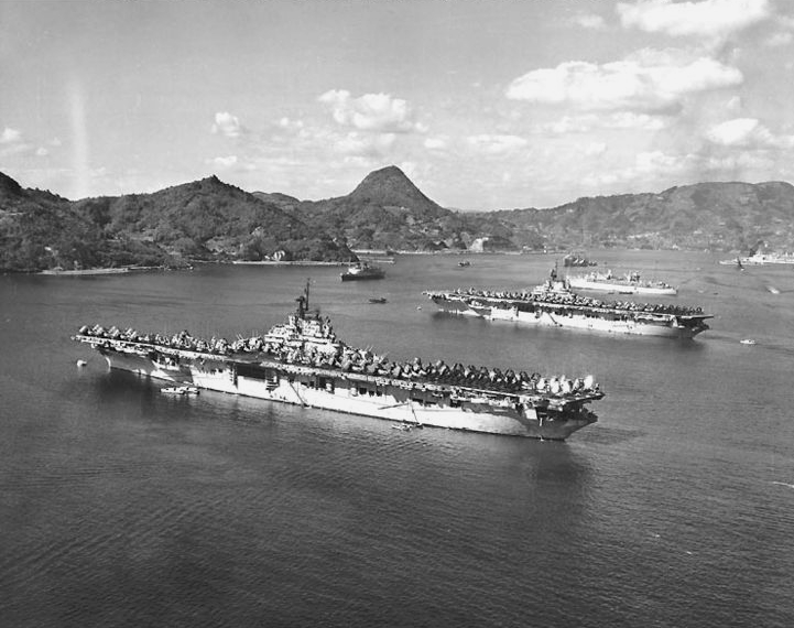 The U.S. Navy aircraft carriers USS Valley Forge (CV-45) and USS Leyte (CV-32) moored at Sasebo, Japan, circa October-November 1950. The repair ship USS Hector (AR-7) is moored beyond the two carriers, with other U.S. and British warships in the distance.